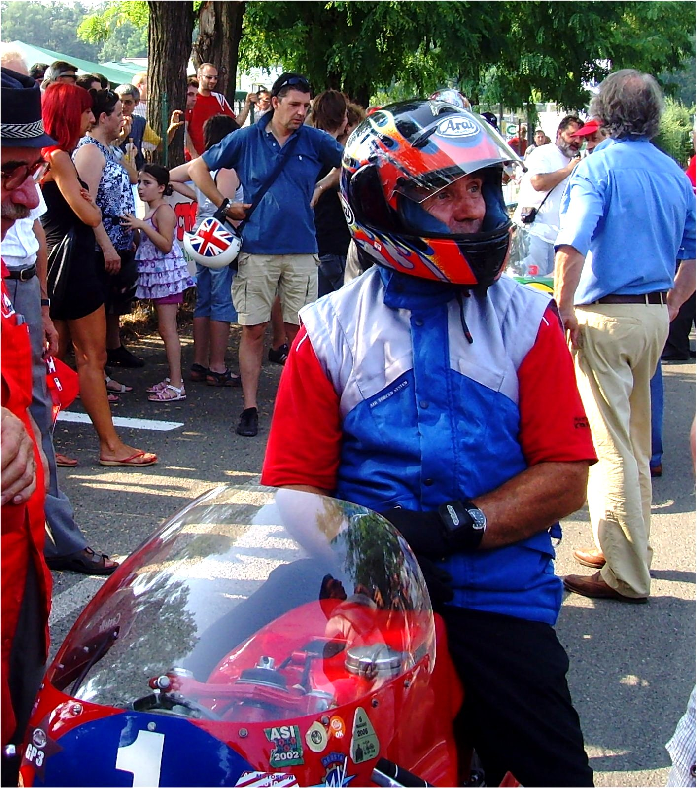 Gianfranco Bonera, MV Agusta 350 6C GP